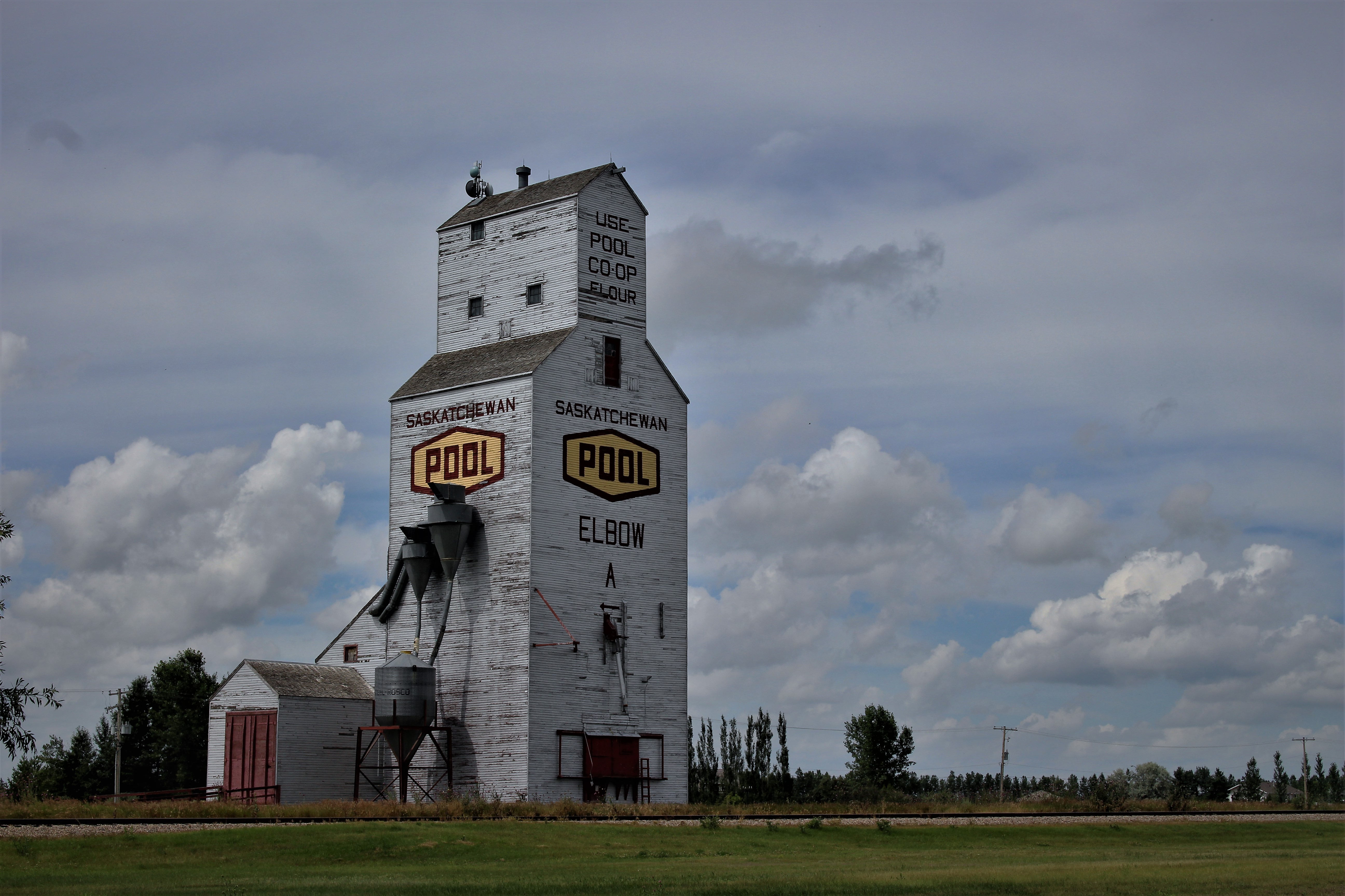 Grain elevator in Elbow, Saskatchewan, Canada. Note: Original Saskatchewan Wheat Pool logo.